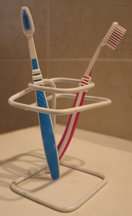 Two toothbrushes in a toothbrush holder.